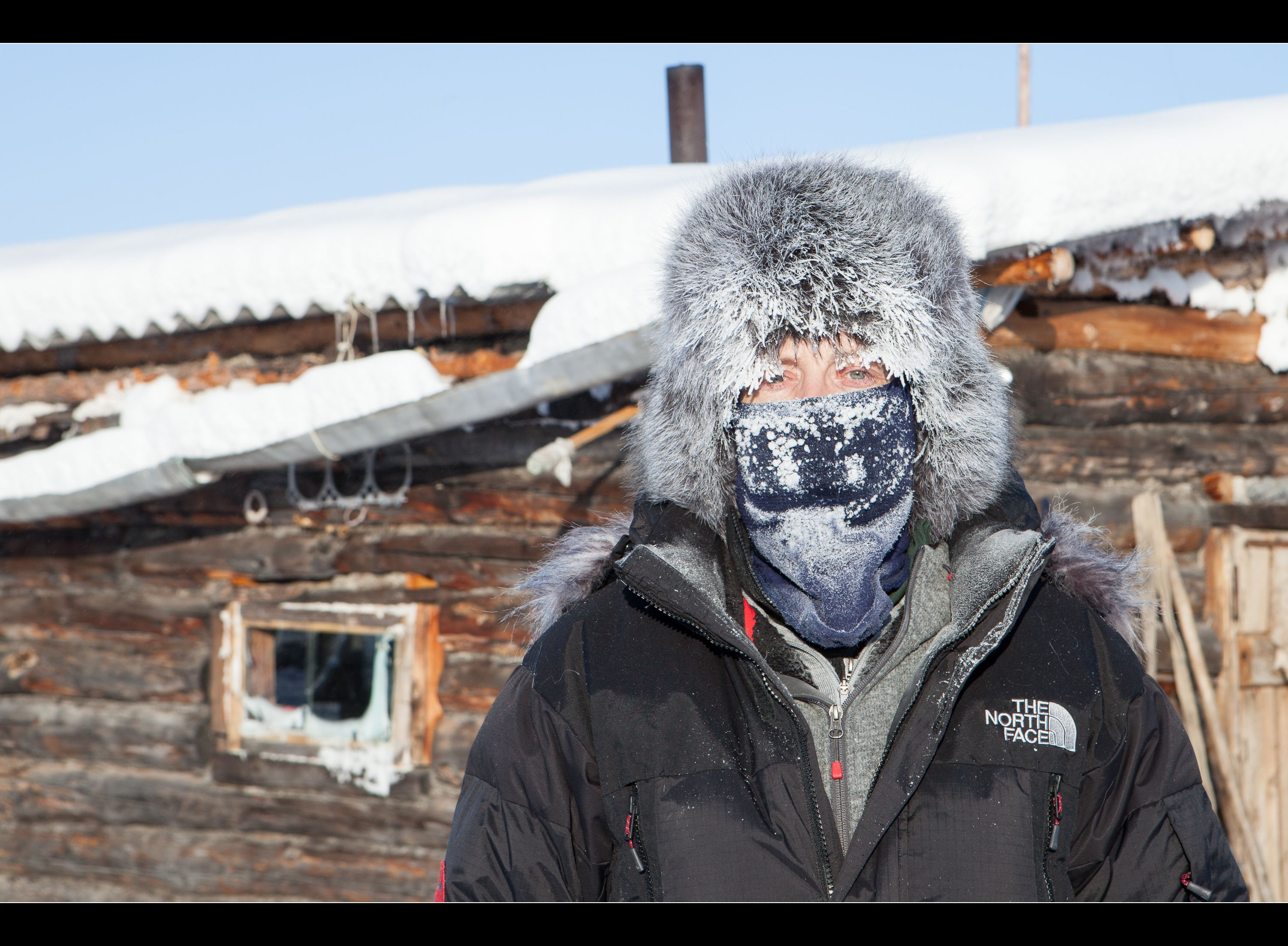 This is me in the deepest and coldest winter ... waiting for the horse breeder to show his horses .. wonderful sunny daz at -55 C ..